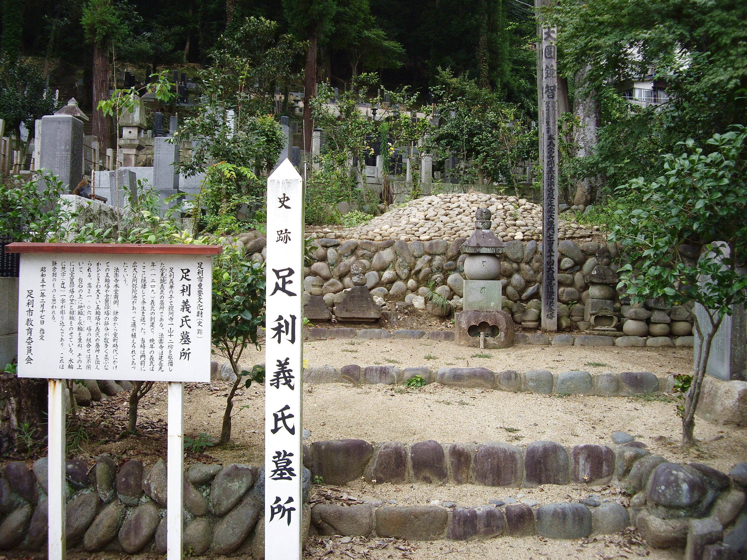 The tomb of Ashikaga Yoshiuji, in Ashikaga, Tochigi Prefecture, Japan